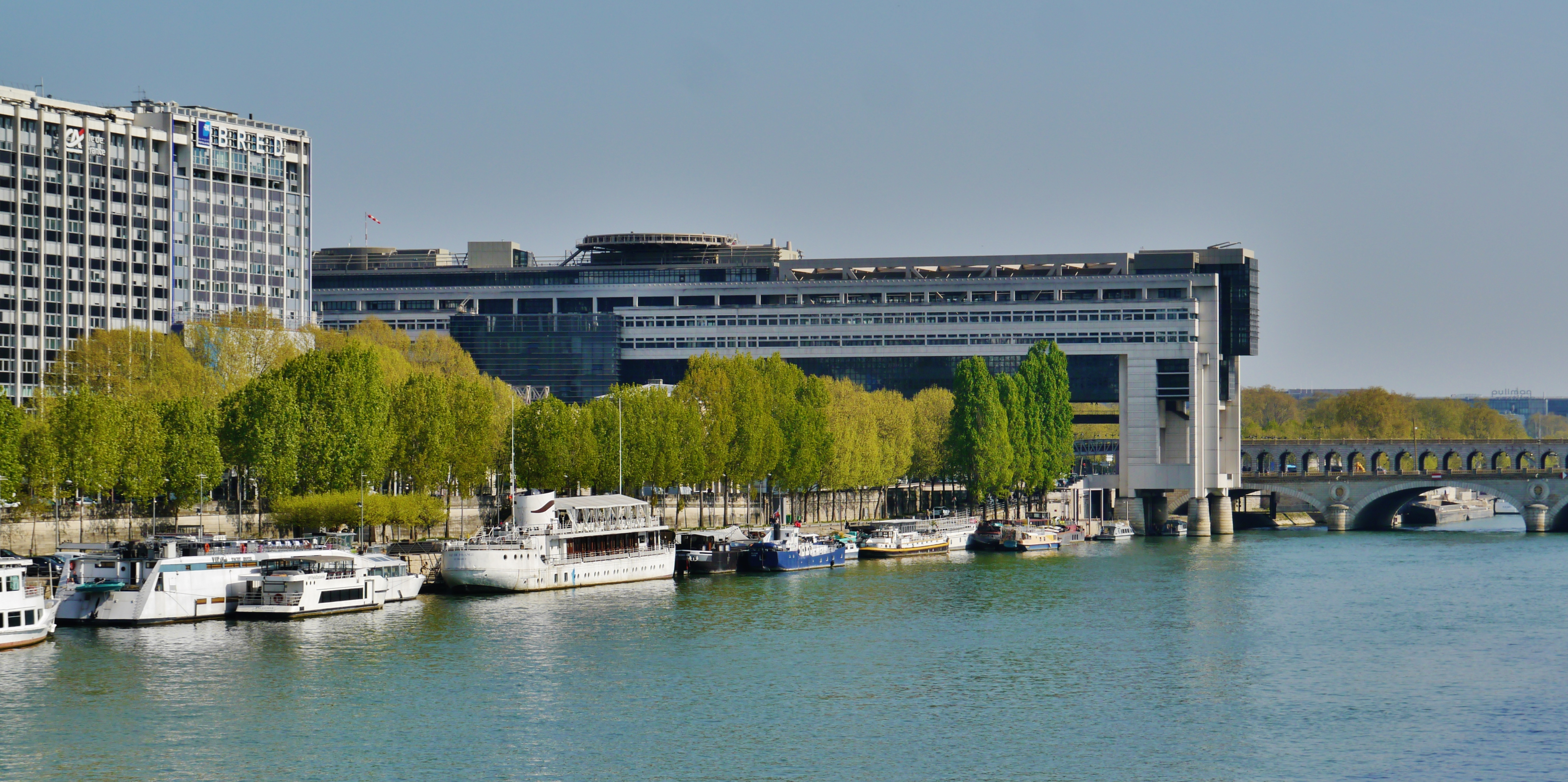 View to the Ministry of Finance, Paris, Region of Île-de-France, France